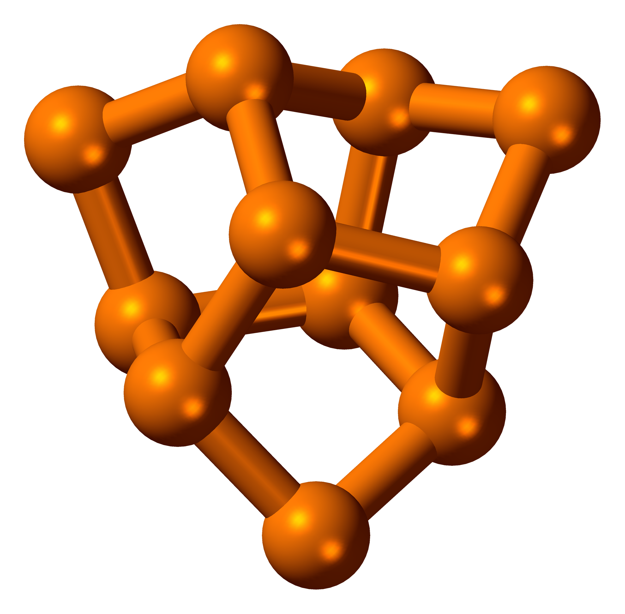 Ball-and-stick model of the anion with the formula P113-, one of several higher phosphide ions. Colour code: Phosphorus, P: orange